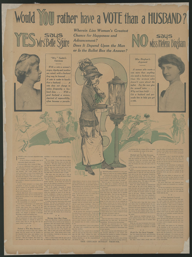 This is a photograph of Mrs. Belle Squire, music teacher, lecturer, and a leader in the woman's suffrage movement, who said she would rather have a vote than a husband.